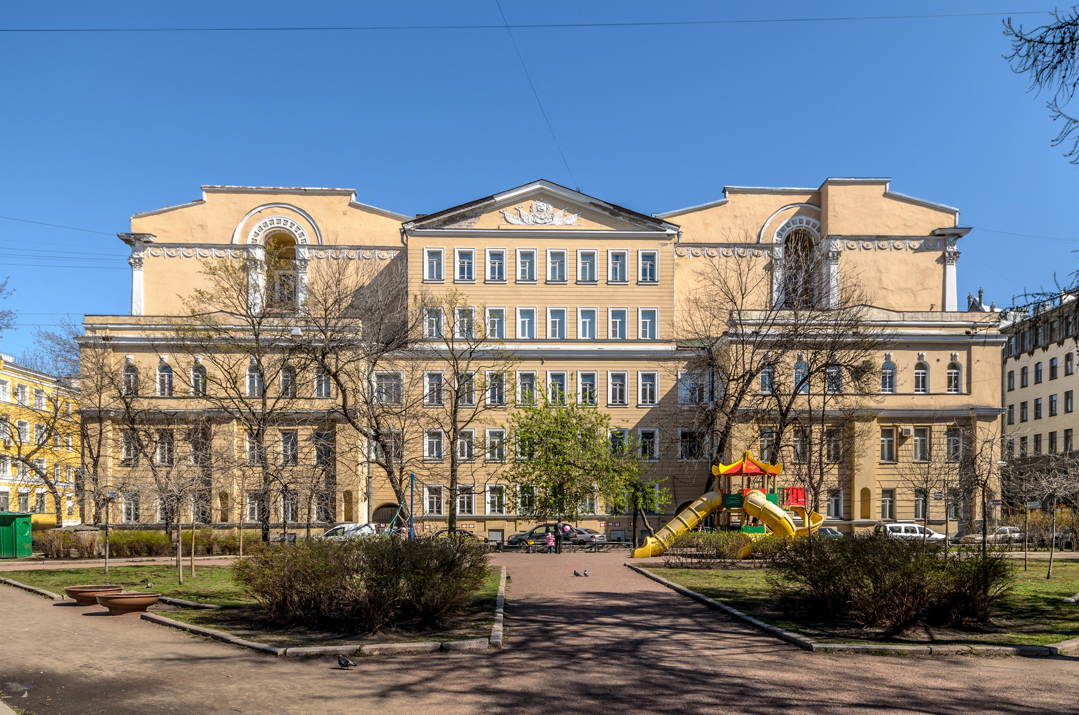 Former Building of the Moskovsko-Narvsky District Executive Committee in Saint Petersburg